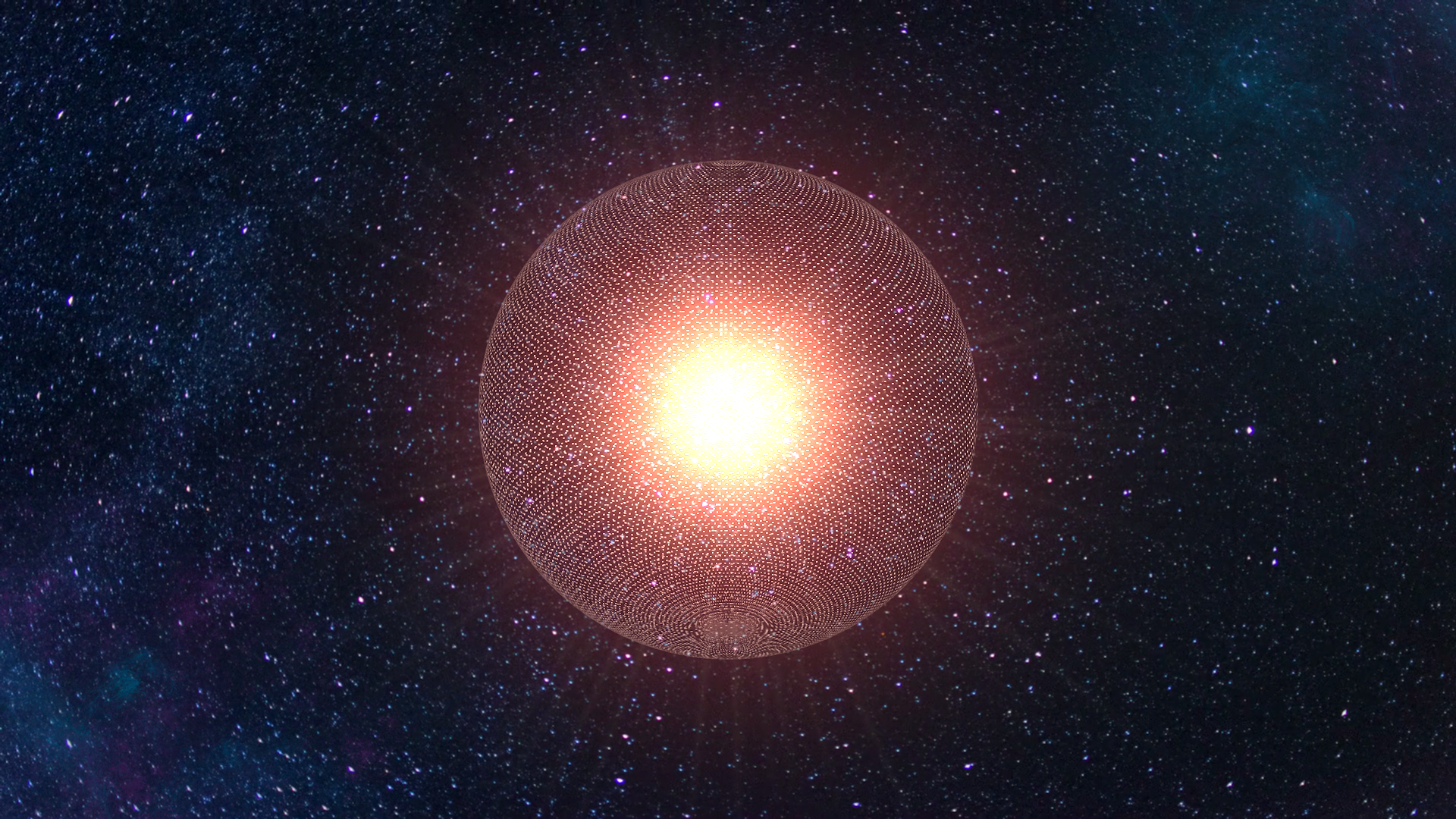 Dyson swarm - a large number of independent constructs orbiting in a dense formation around the star.